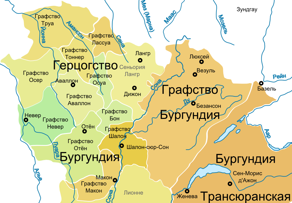 County and duchy Burgundy in XI and XII centuries